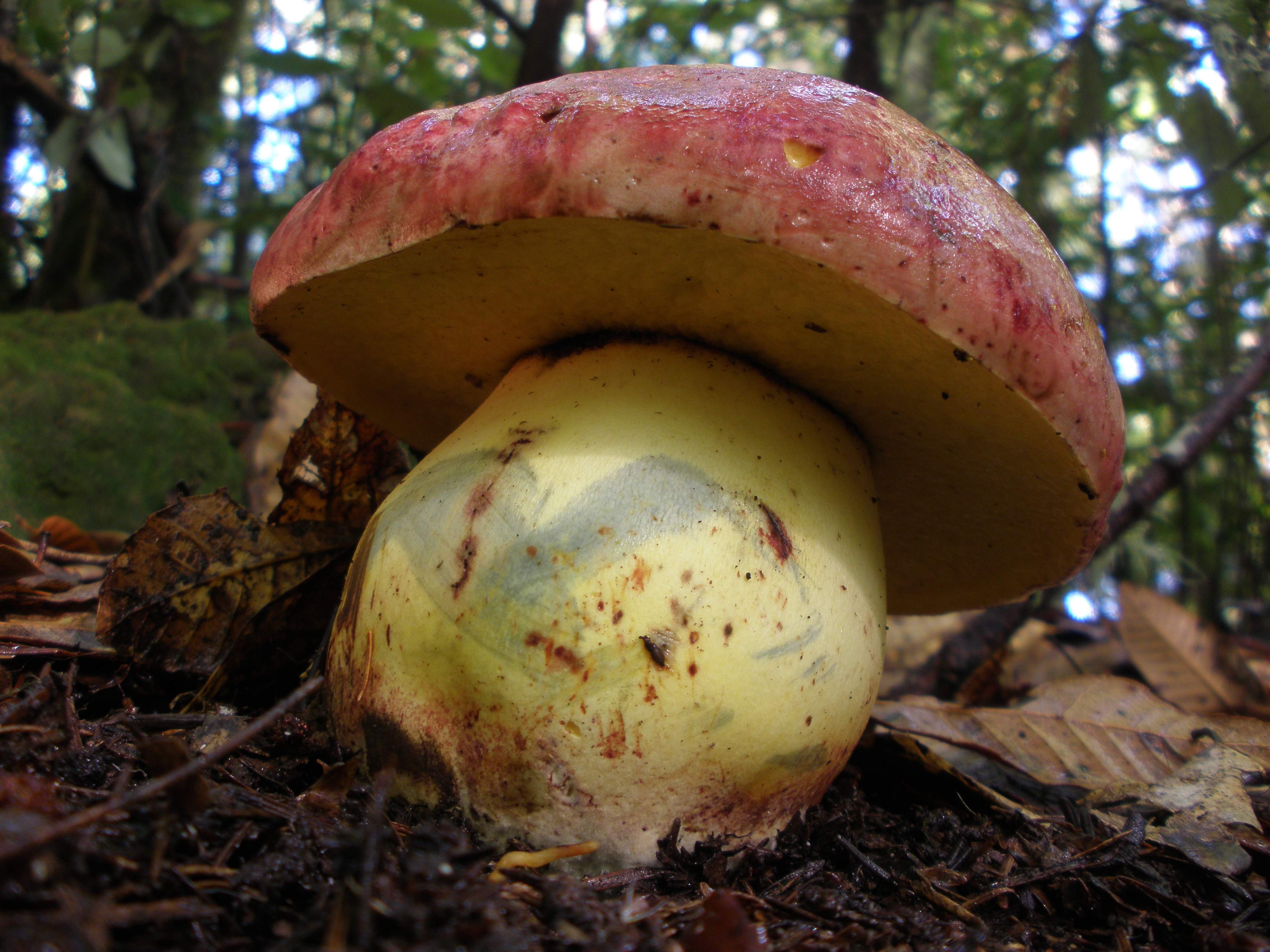 Butyriboletus autumniregiuss Location: Fort Bragg, California, USA Observation Notes: Found 8 of them.4 and 5 inches across. Hard as a rock.Reference: Thiers, Harry D. (1975). California Mushrooms: A Field Guide to the Boletes. New York, NY: Hafner Press. For more information about this, see the observation page at Mushroom Observer.